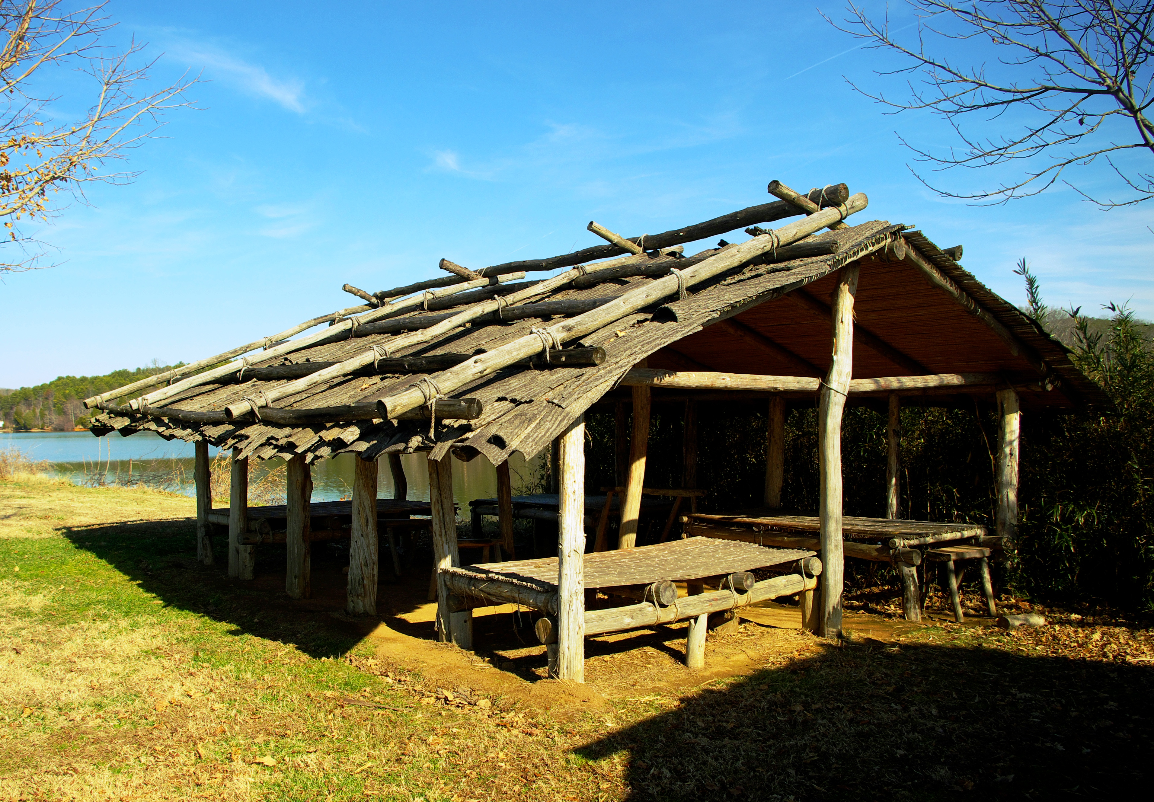 Reconstructed Cherokee "summer house" at Fort Loudoun in Monroe County, Tennessee, United States. This house, along with an adjacent "winter house," were built to represent the Cherokee town of Tuskegee, which developed adjacent to the fort.